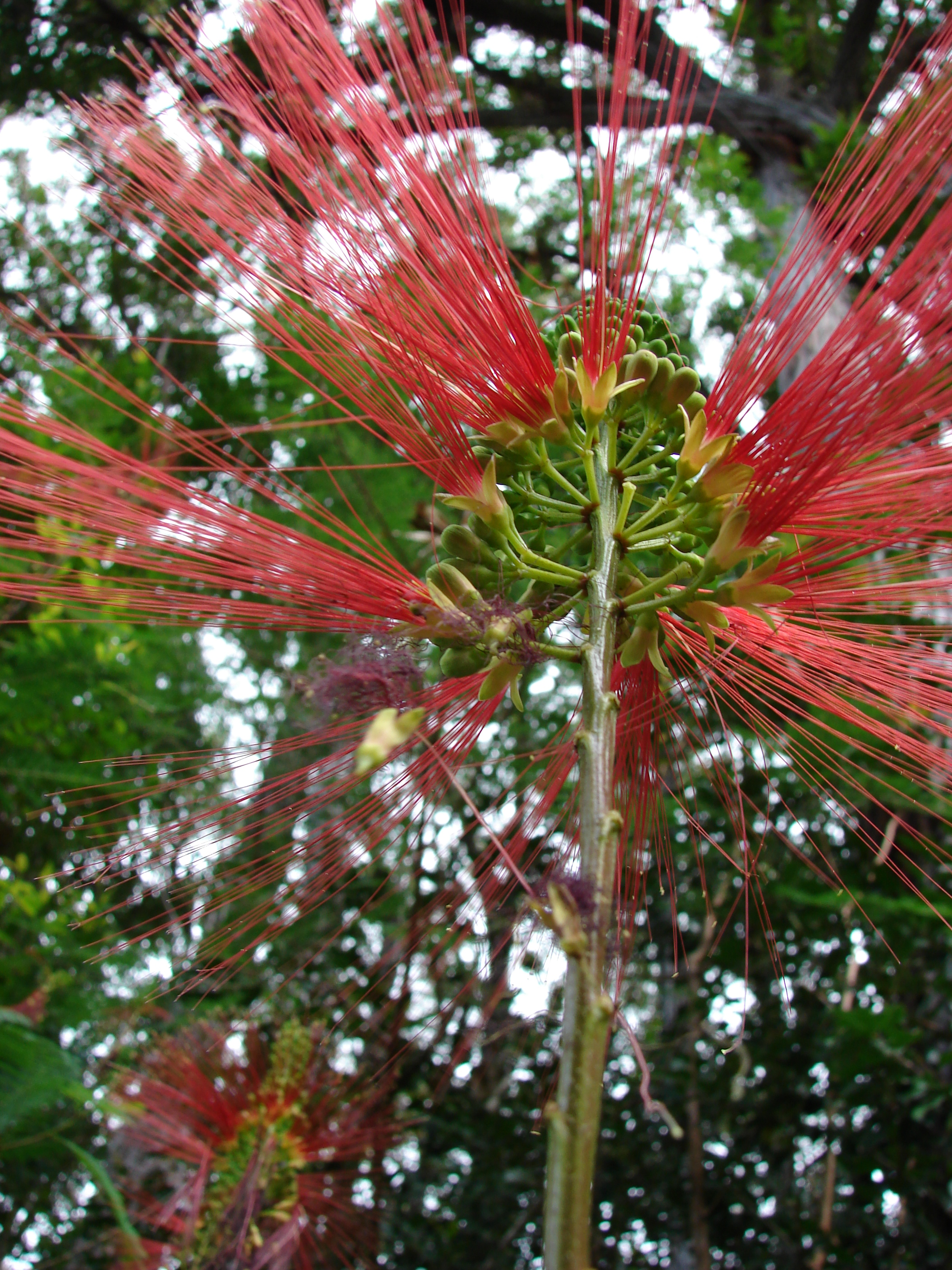 Calliandra houstoniana var. calothyrsus (flowers). Location: Maui, Ulumalu Haiku